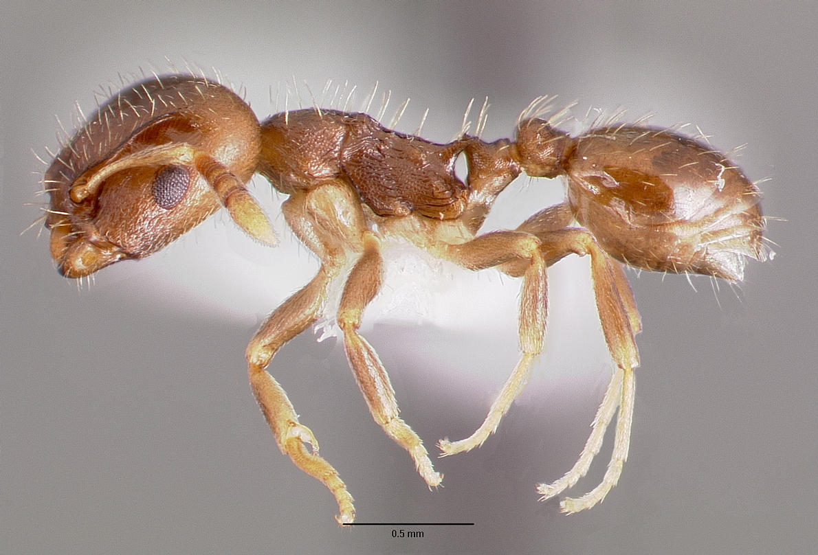 Profile view of ant Protomognathus americanus specimen casent0003235.